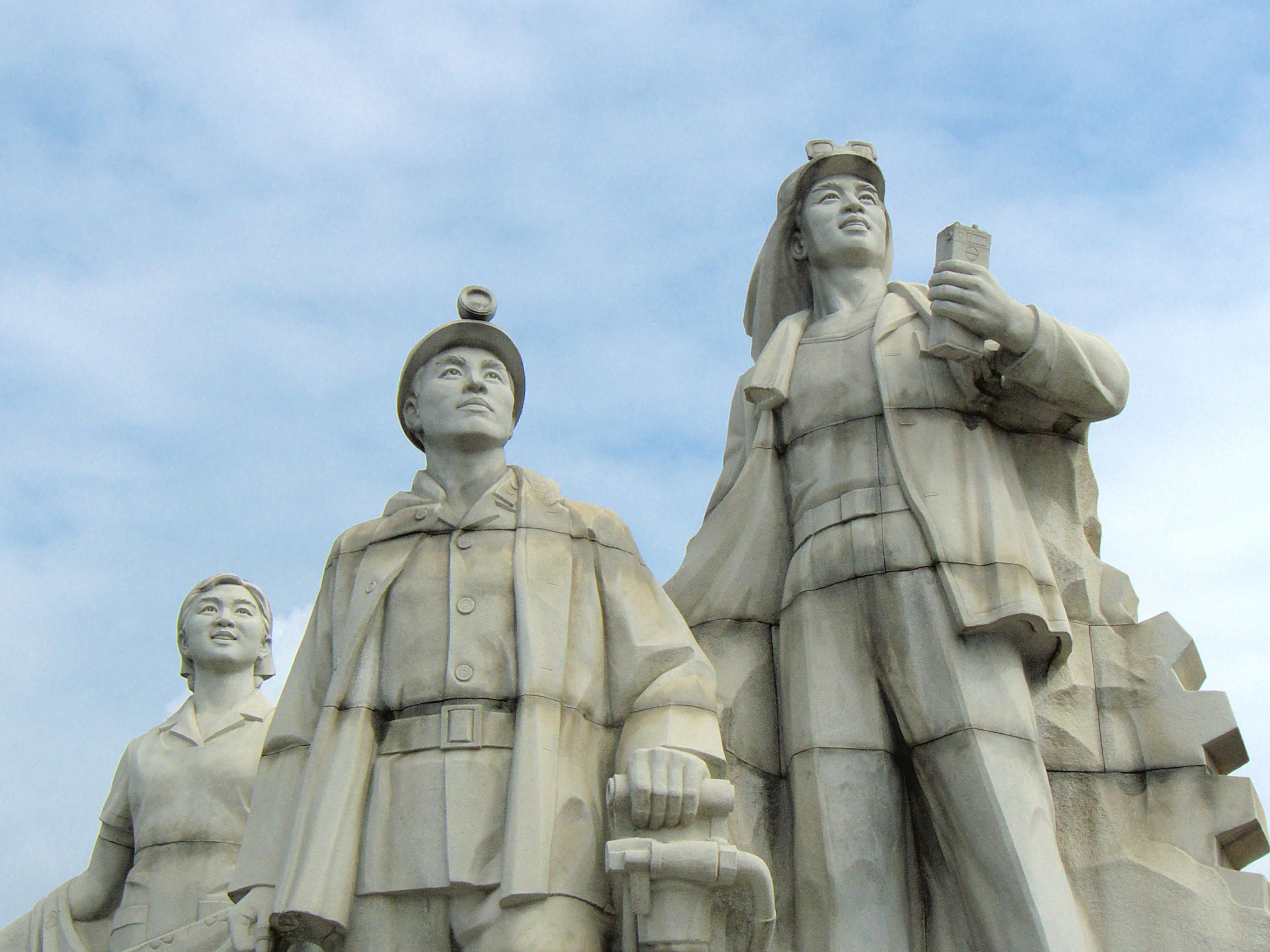 The Tower of Juche Idea was completed in 1982 to commemorate Kim Il Sung's 70th birthday. The Juche Idea, the official state ideology, developed by the man himself, is a blend of Marxism-Leninism and Autarky. On either sides of the tower stands three groups of statues depicting various aspects of the Juche philosophy.